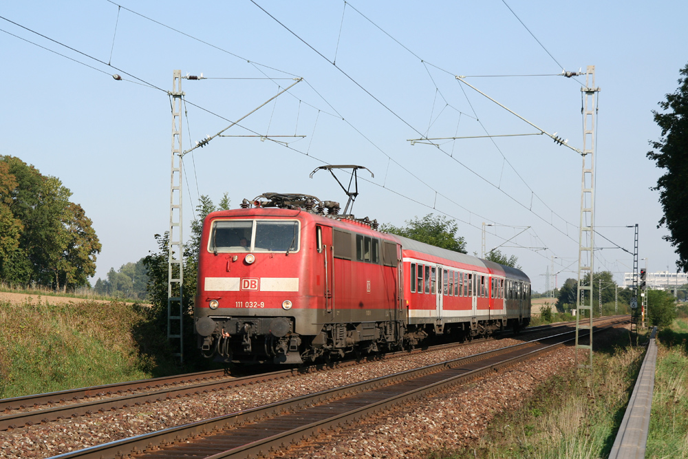 A DB class 111 carries pulls a regional train to Eichstätt. This picture has been taken near Gaimersheim, between Ingolstadt and Treuchtlingen